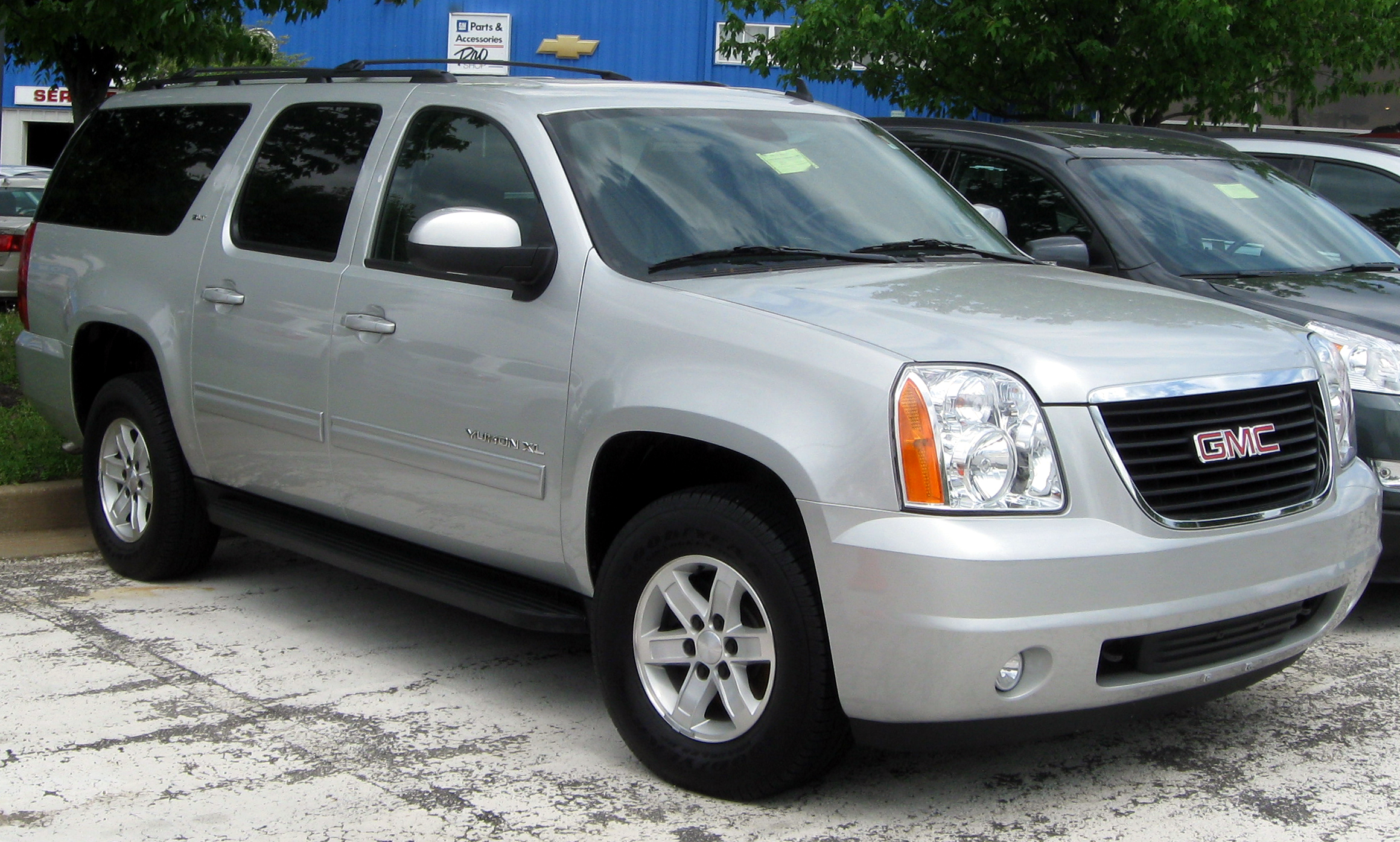 2010 GMC Yukon XL photographed in Clarksville, Maryland, USA.